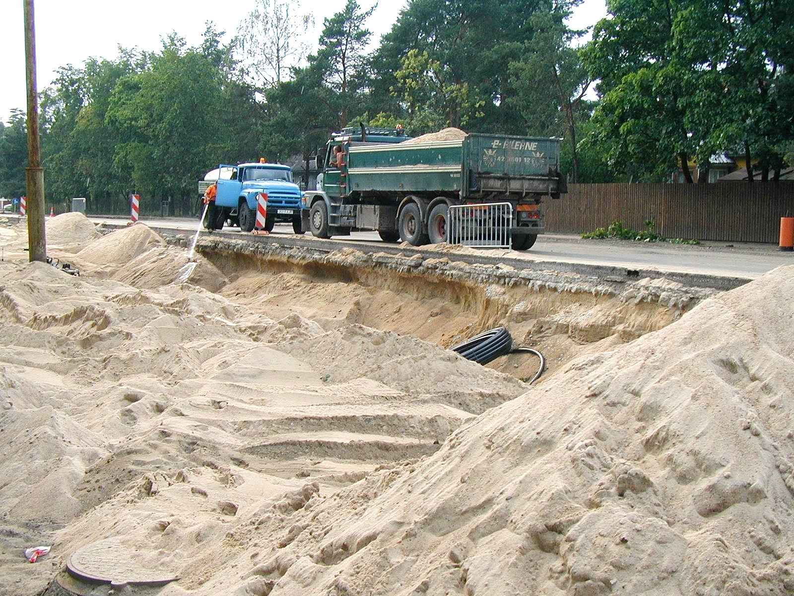 Reconstruction of Vabaduse puiestee in Nõmme